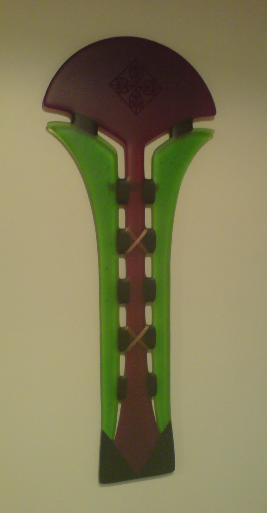 A photograph of the artwork 'Pohutukawa' by Te Rongo Kirkwood. Fused glass with copper banding. The artwork is owned by the uploader.